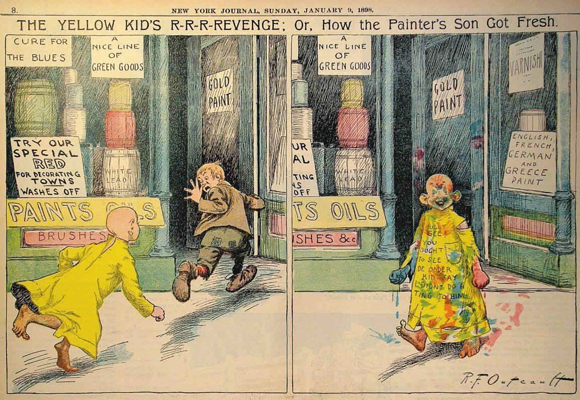 The Yellow Kid by Richard F. Outcault for January 9, 1898, captioned "The Yellow Kid's R-R-Revenge; Or, How the Painter's Son Got Fresh." In panel two, the Yellow Kid says, "Hulla gee! You ought to see de odder kid say I didnt do a ting to him".